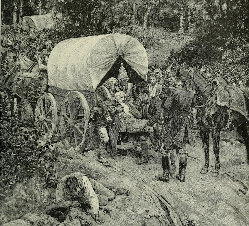 "The Death of Braddock. G.W. placed the General in a small covered cart," drawn by Pyle, engraved by C.W. Chadwick. Scribner's Magazine (May 1893)